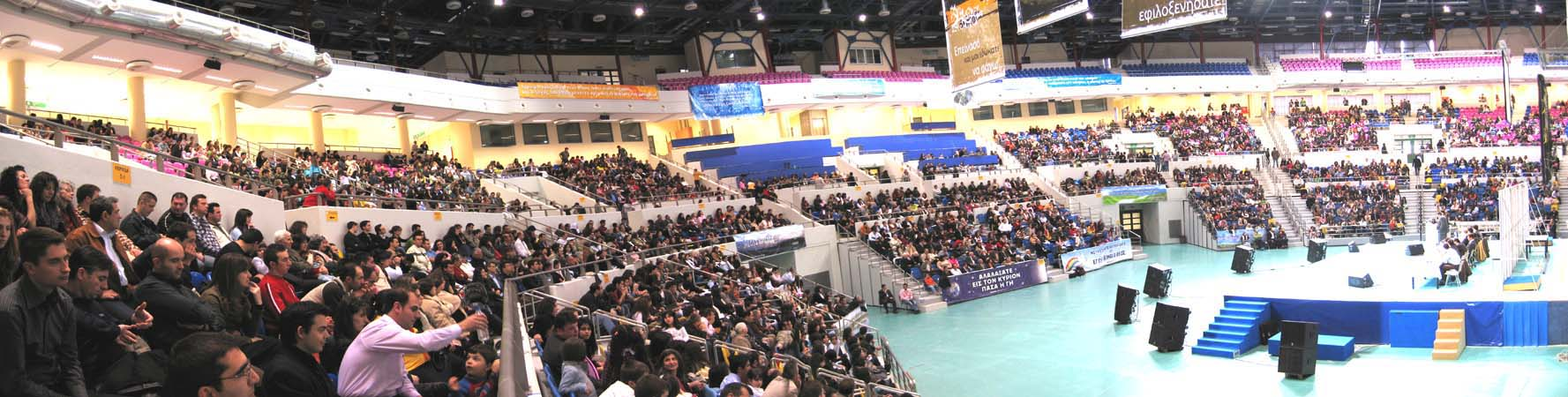 46th conference of Free Apostolic Church of Pentecost Youth in Greece